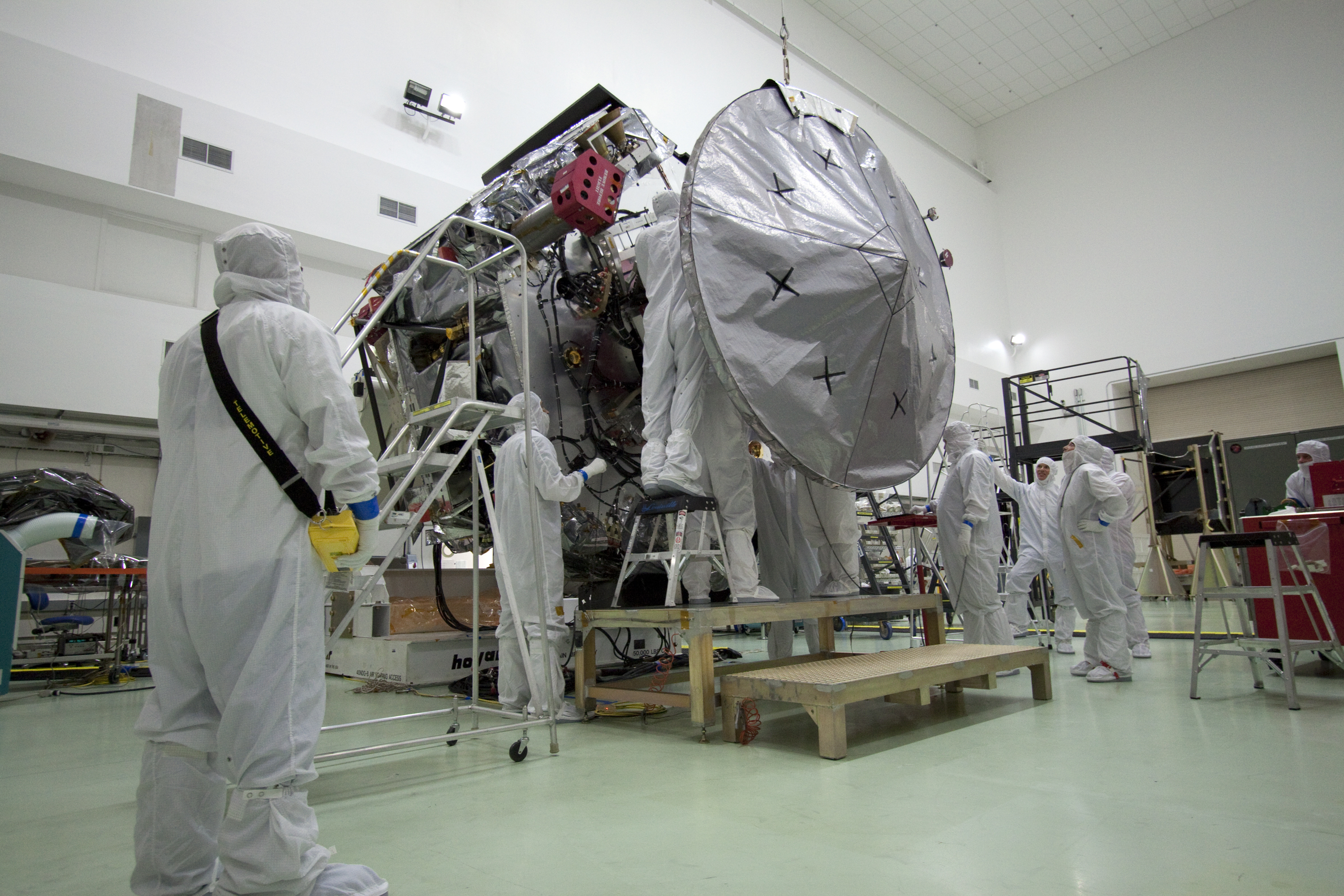 CAPE CANAVERAL, Fla. -- Technicians at Astrotech's payload processing facility in Titusville, Fla. install the high-gain antenna to NASA's Juno spacecraft. Juno is scheduled to launch aboard an Atlas V rocket from Cape Canaveral, Fla. Aug. 5.The solar-powered spacecraft will orbit Jupiter's poles 33 times to find out more about the gas giant's origins, structure, atmosphere and magnetosphere and investigate the existence of a solid planetary core. For more information visit